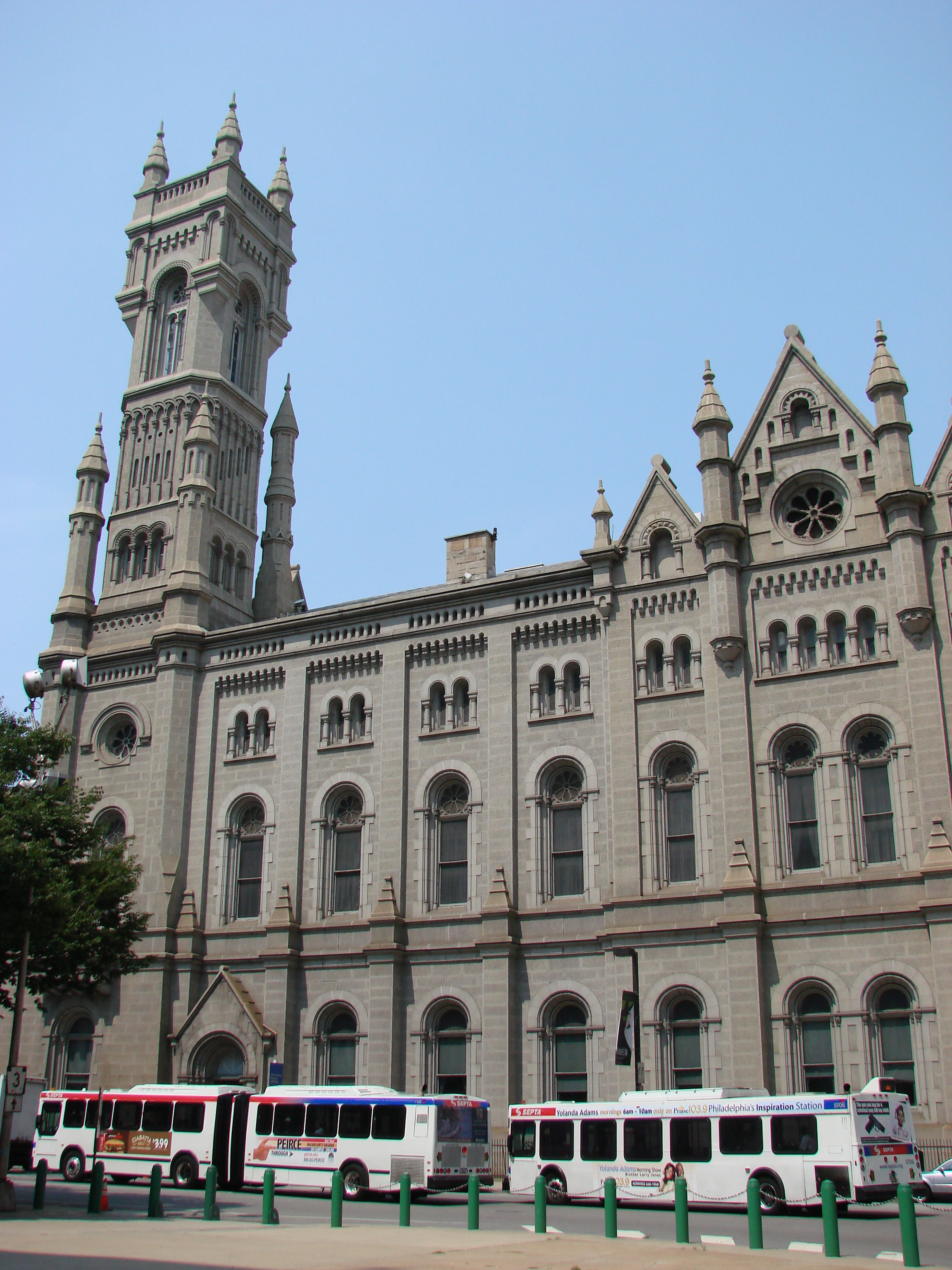 Grand Lodge of Pennsylvania in Philadelphia